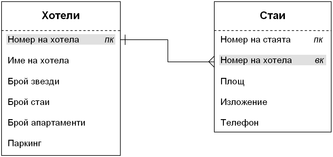 One-to-many database relationship, in Bulgarian